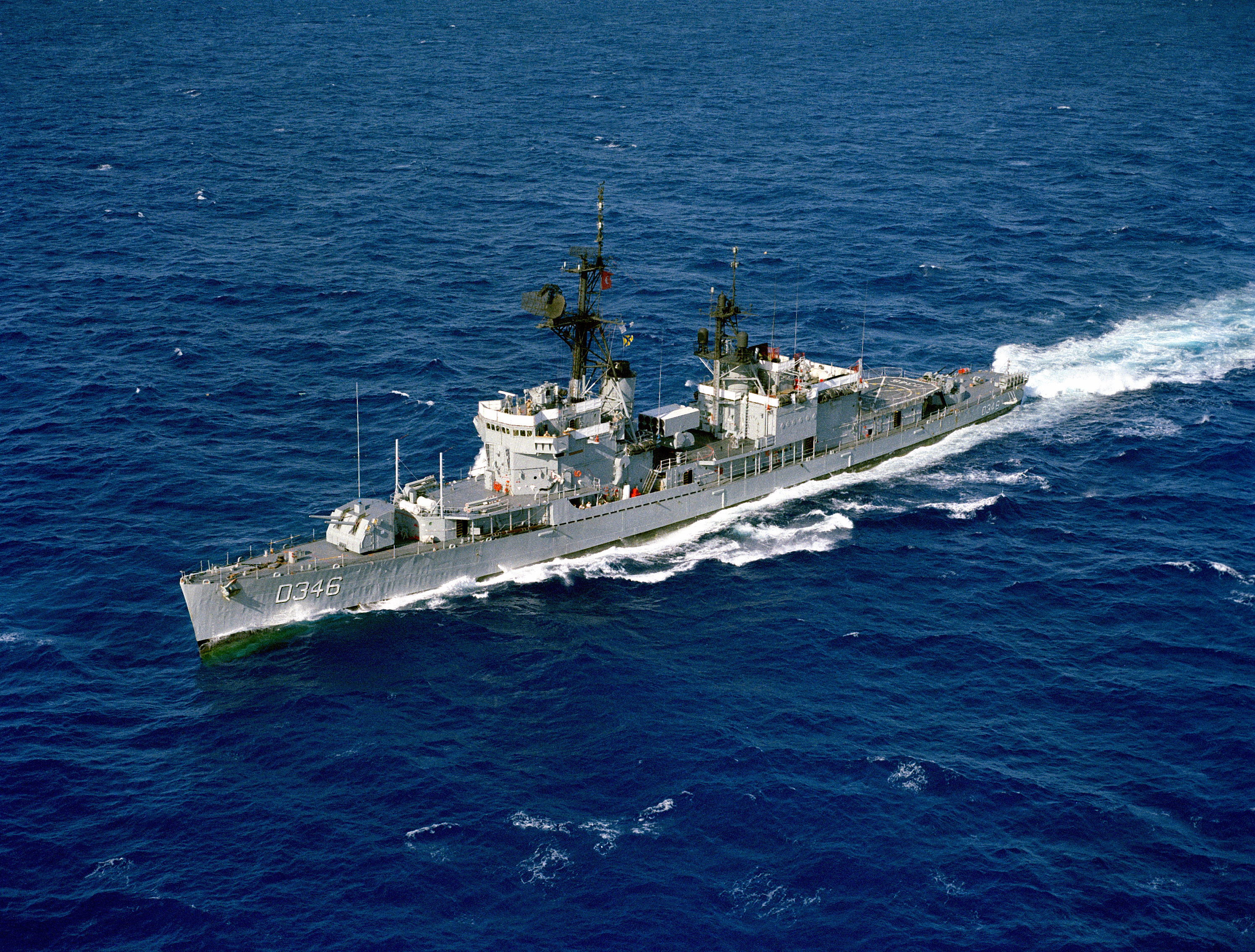 A port bow view of the Turkish destroyer TCG Alçıtepe (D-346) underway in the Mediterranean Sea during exercise "Distant Drum" on 19 May 1983.